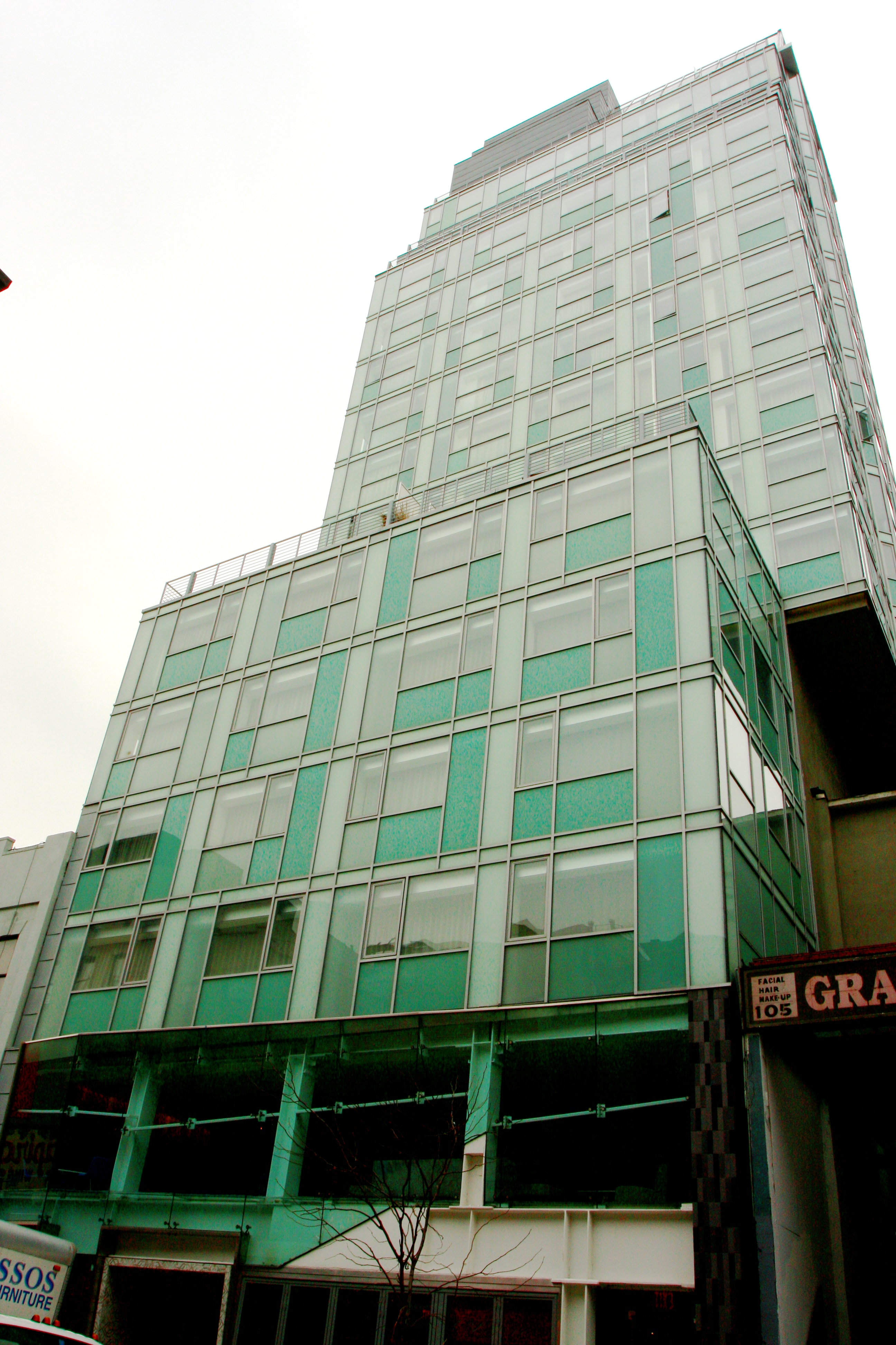 This photo is of Wikipedia Takes Manhattan location code 128, Hotel on Rivington.